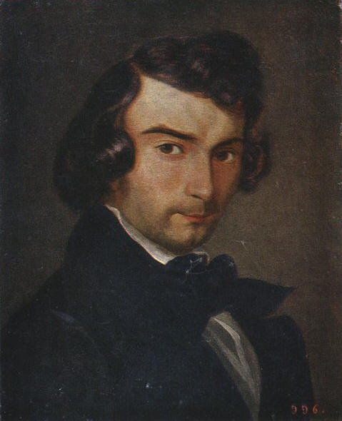 Mokrickiy Appolon. Self-portrait